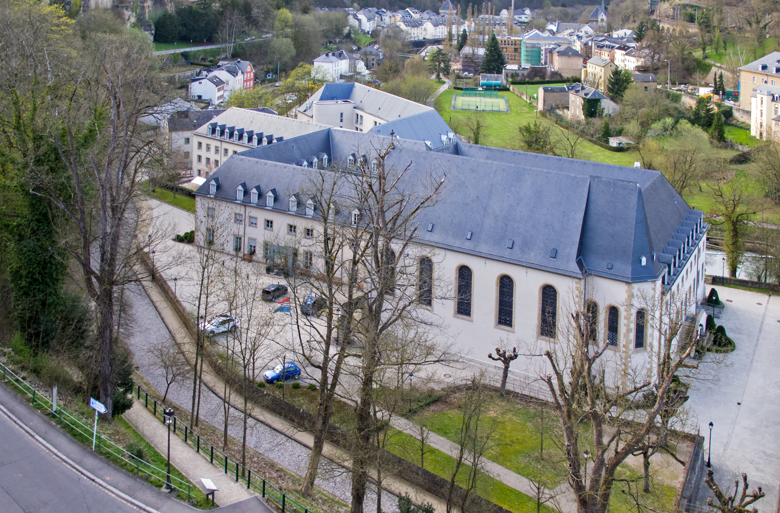 The Hospice civil in the rue Mohrfels in Luxembourg-Pfaffenthal